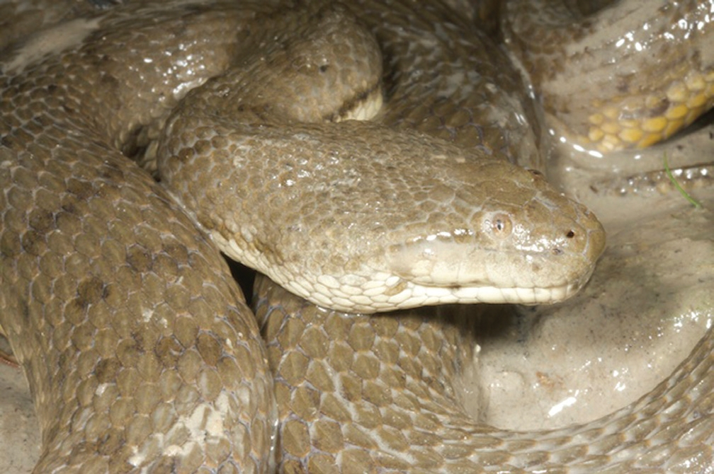 Cerberus schneiderii. Male (USNM 573675, SVL 598 mm, TL 756 mm) from a rice paddy in the Baucau area, Baucau District.